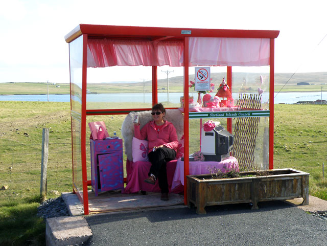 Bobby's Bus Shelter, near to Baltasound, Shetland Islands, Great Britain. Pink appears to be the colour for 2009.